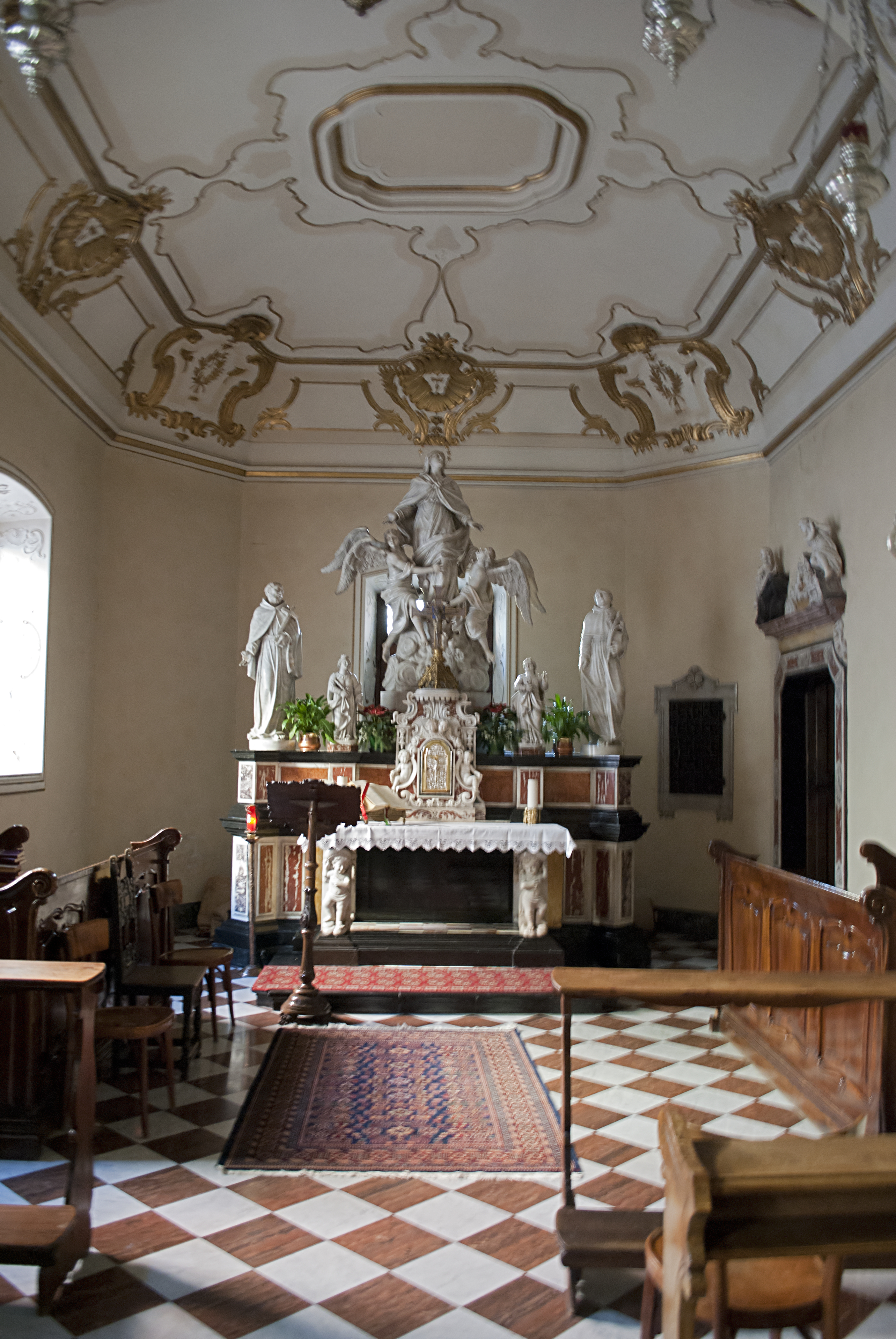 The Duomo of Gorizia, Italy; view of the Cappella del Santissimo.